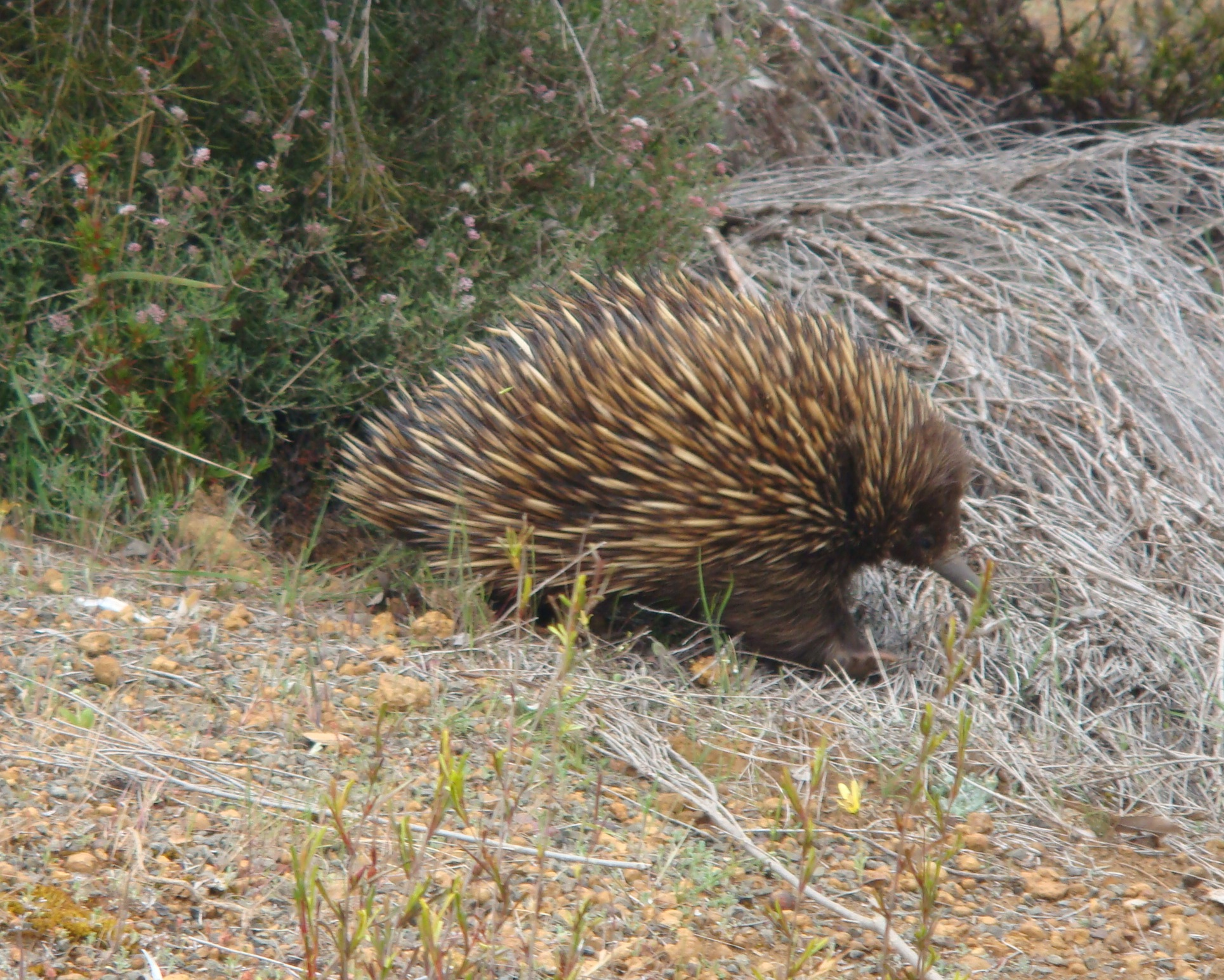 Echidna (Tachyglossus aculeatus) in Flinders Chase National Park, Kangaroo Island.